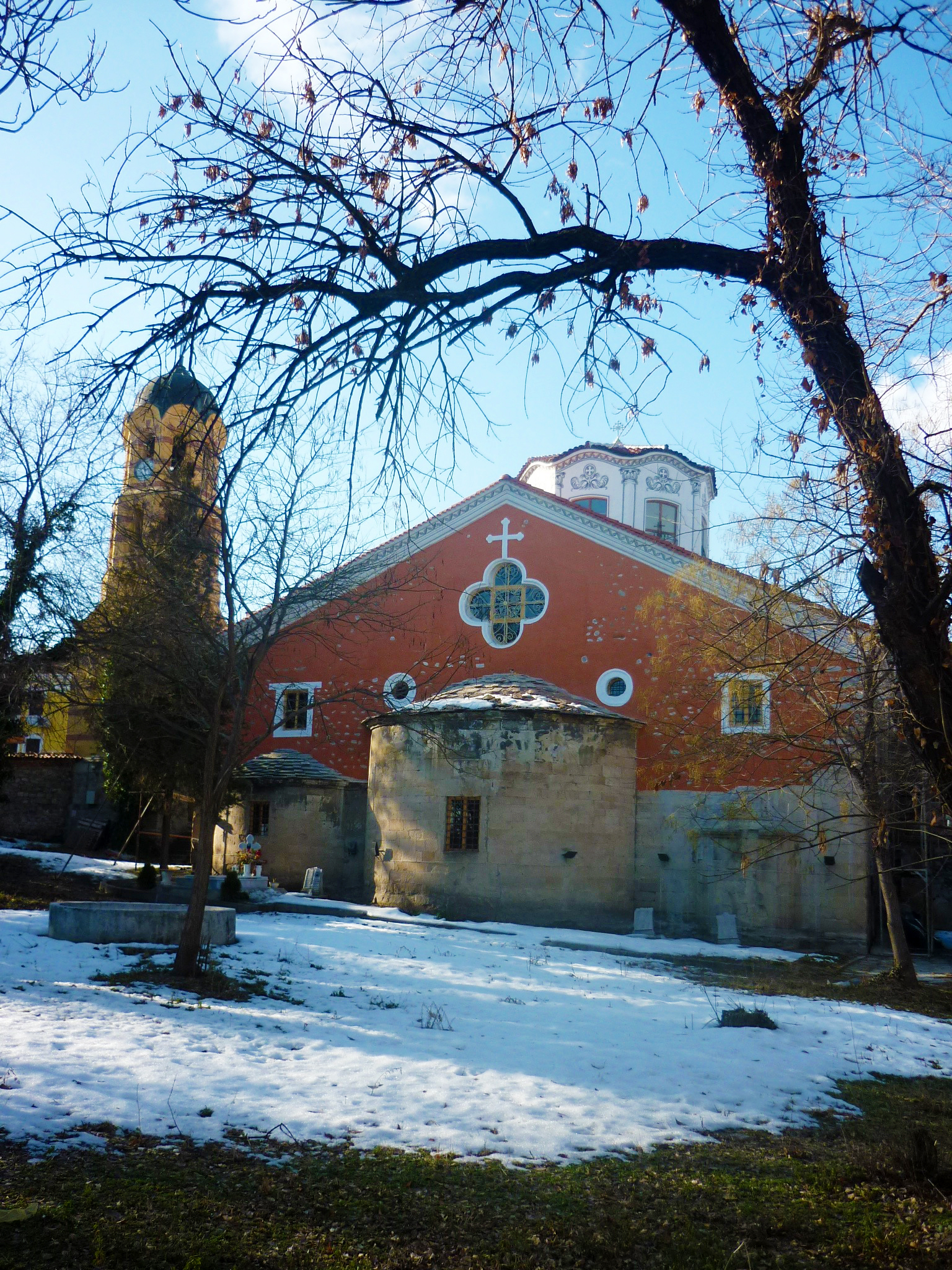 St. Nedelja church, Plovdiv (Bulgaria)